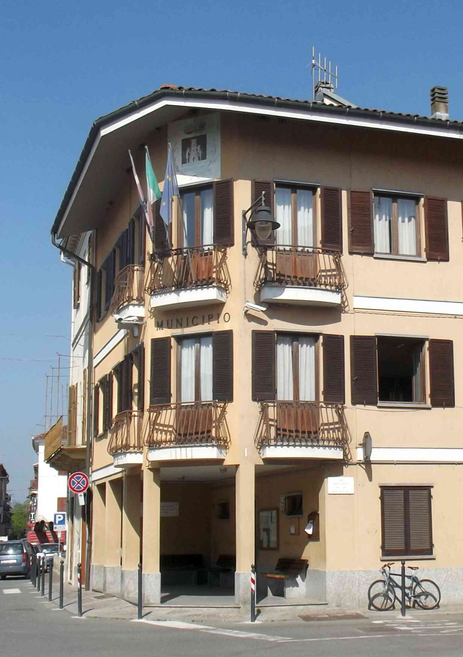 Rivalta Bormida (AL, Italy): town hall